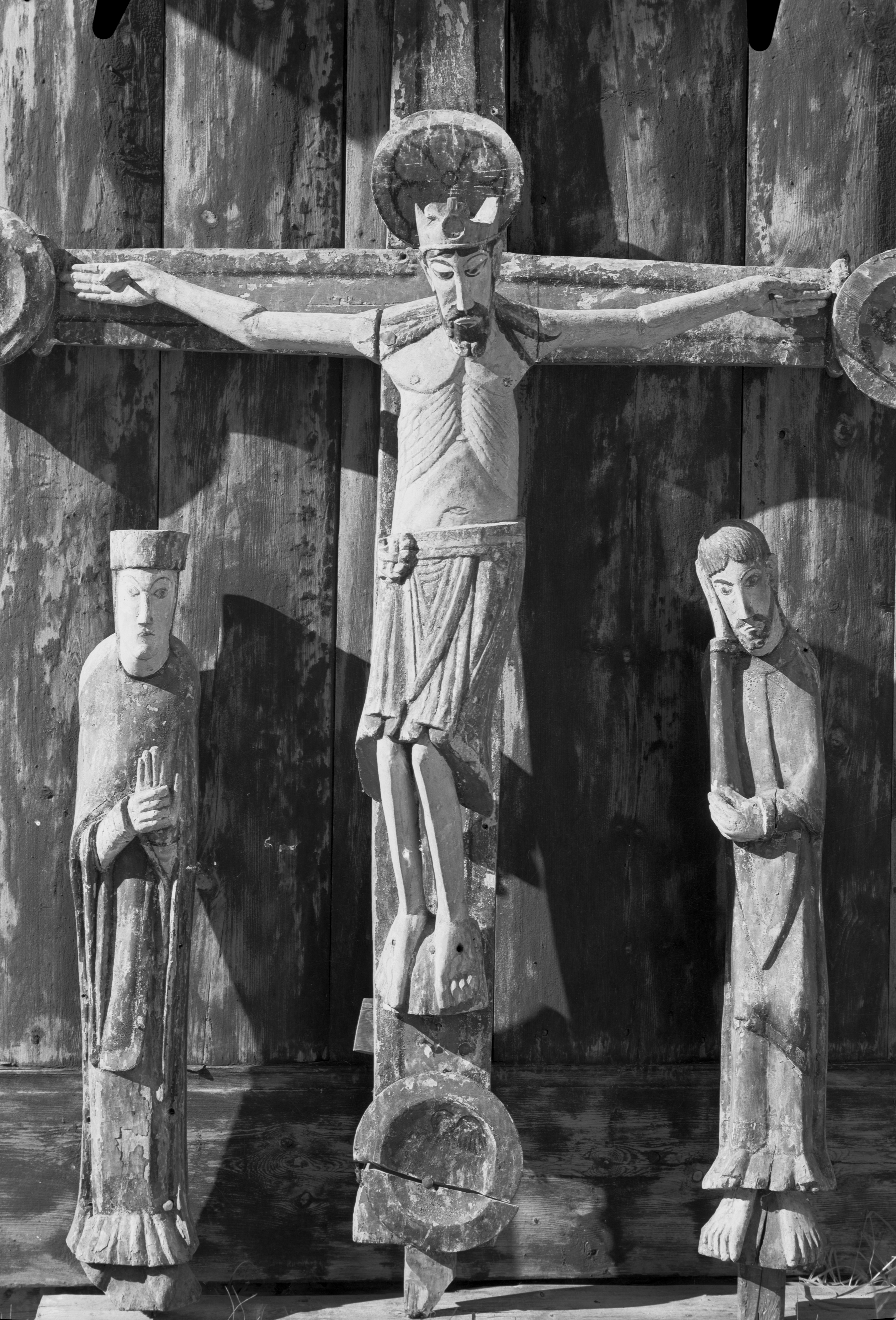 Calvary group in Urnes stavechurch includes three wooden sculptures, Mary, the crucified Christ and St John. It dates from the 12th century Source:NIKU